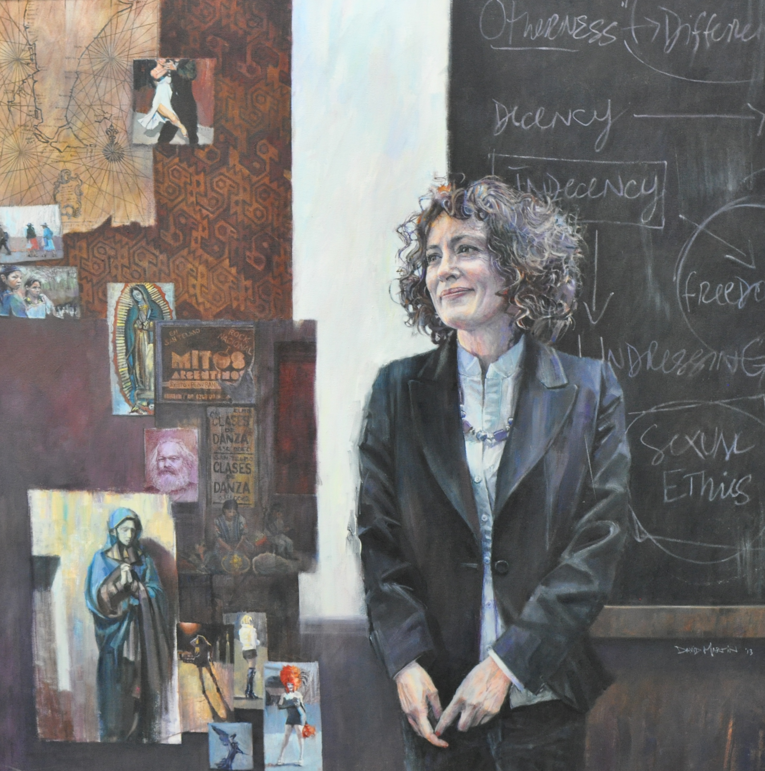 Portrait of Marcella Althaus-Reid dedicated in the naming of the Althaus-Reid Room in New College, Edinburgh